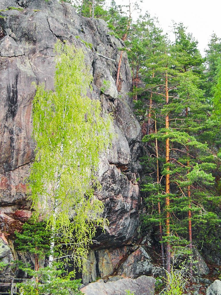 Astuvansalmi prehistoric rock paintings in Ristiina, Finland